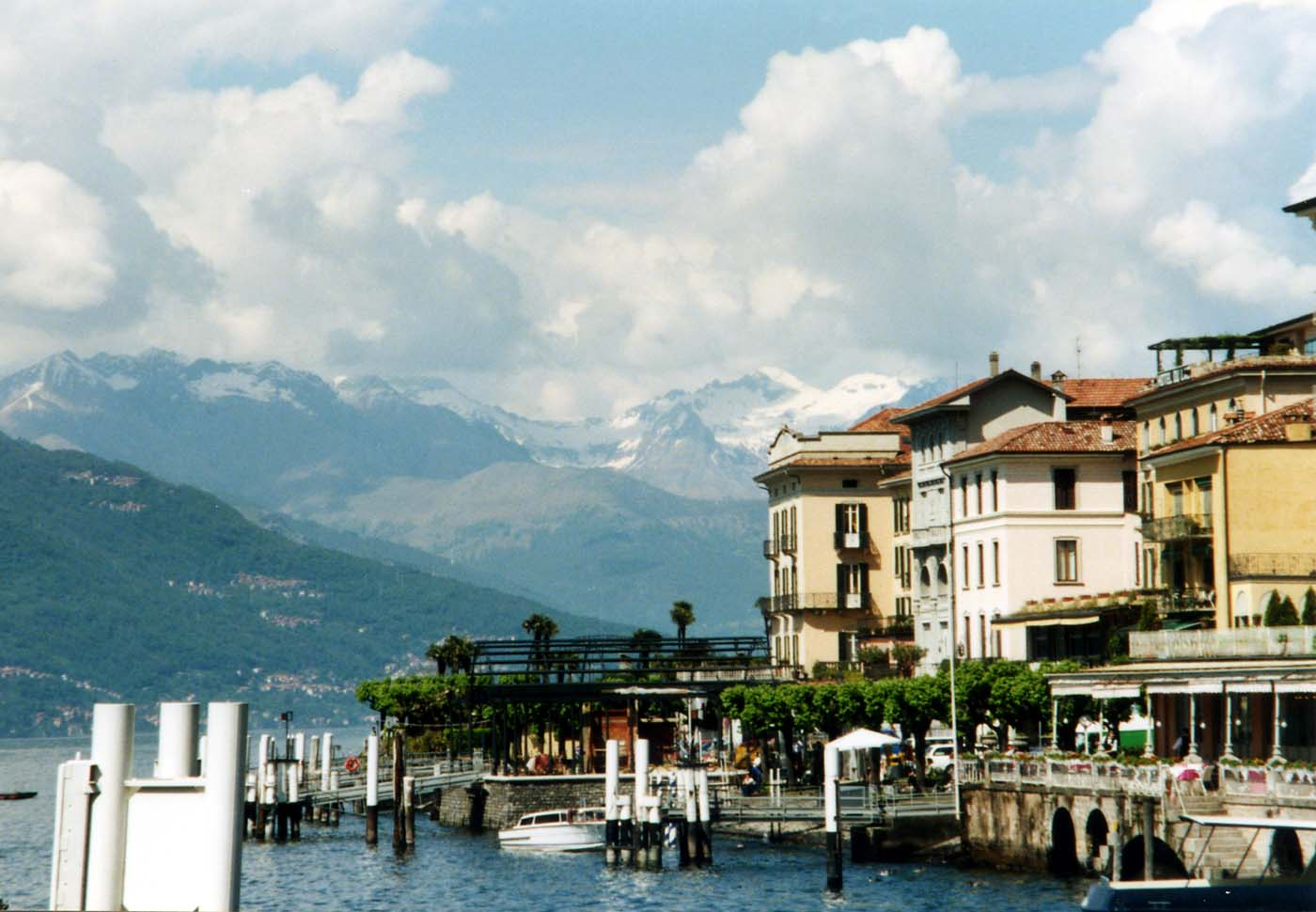 View of Bellagio waterfront